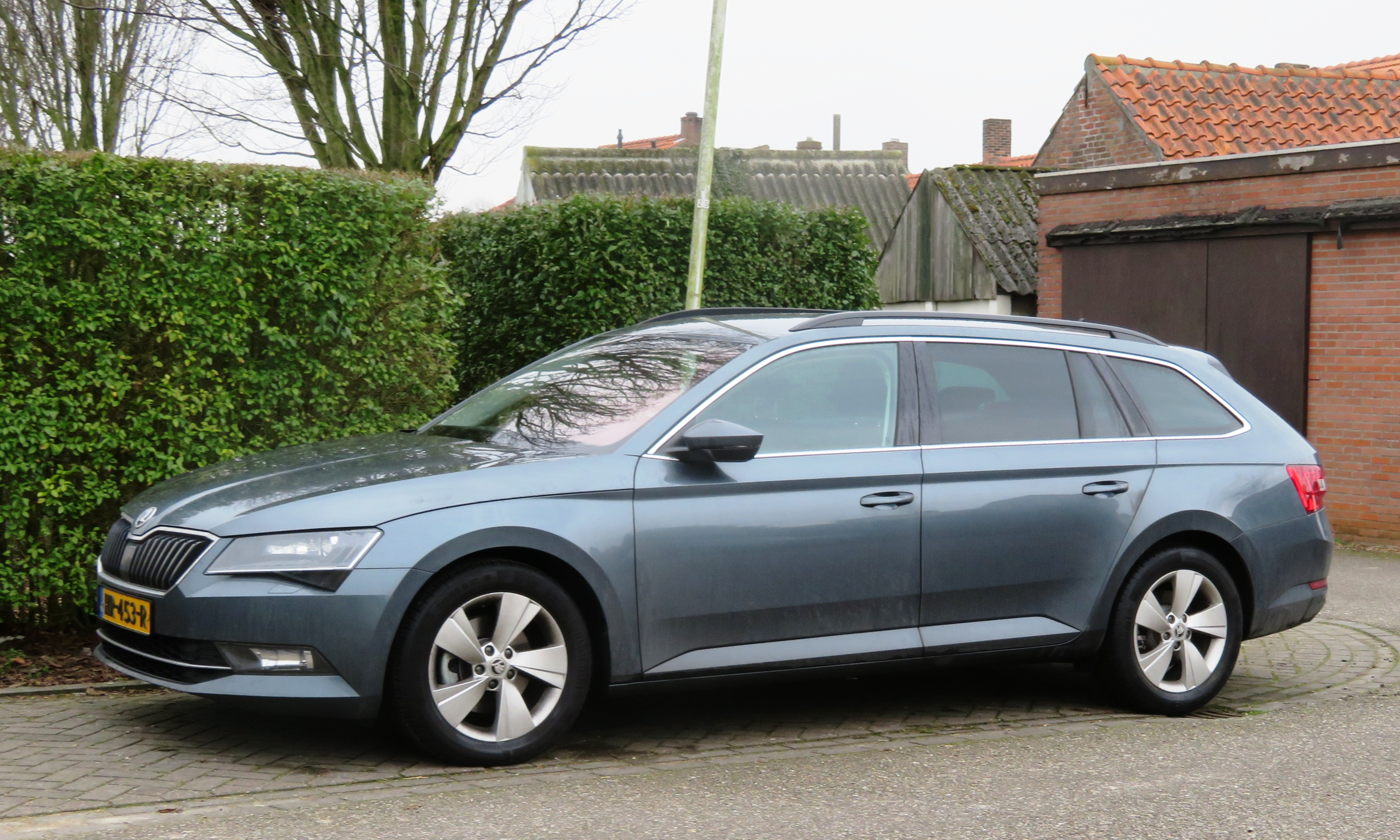 Škoda Superb III Combi (2017)